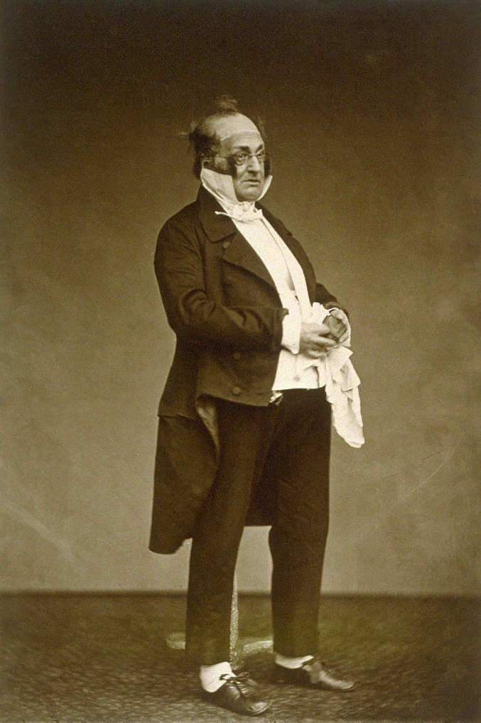 Henry Monnier (1799-1877) playing the part of Monsieur Prudhomme. Photograph by Étienne Carjat (1828-1906), c.1875.